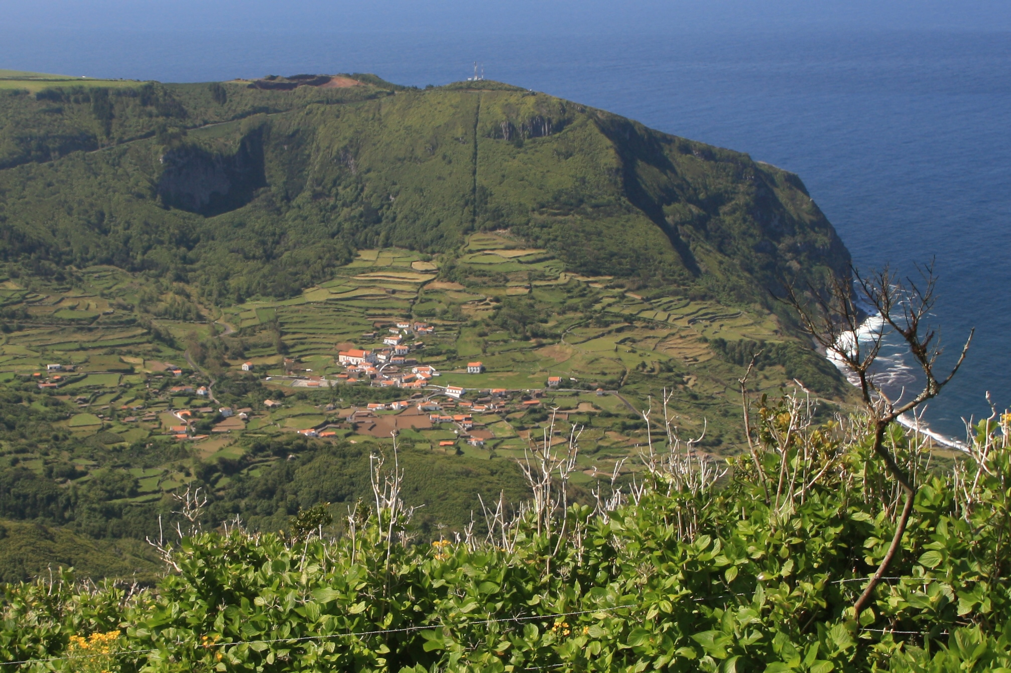 Azores, Flores, Fajãzinha